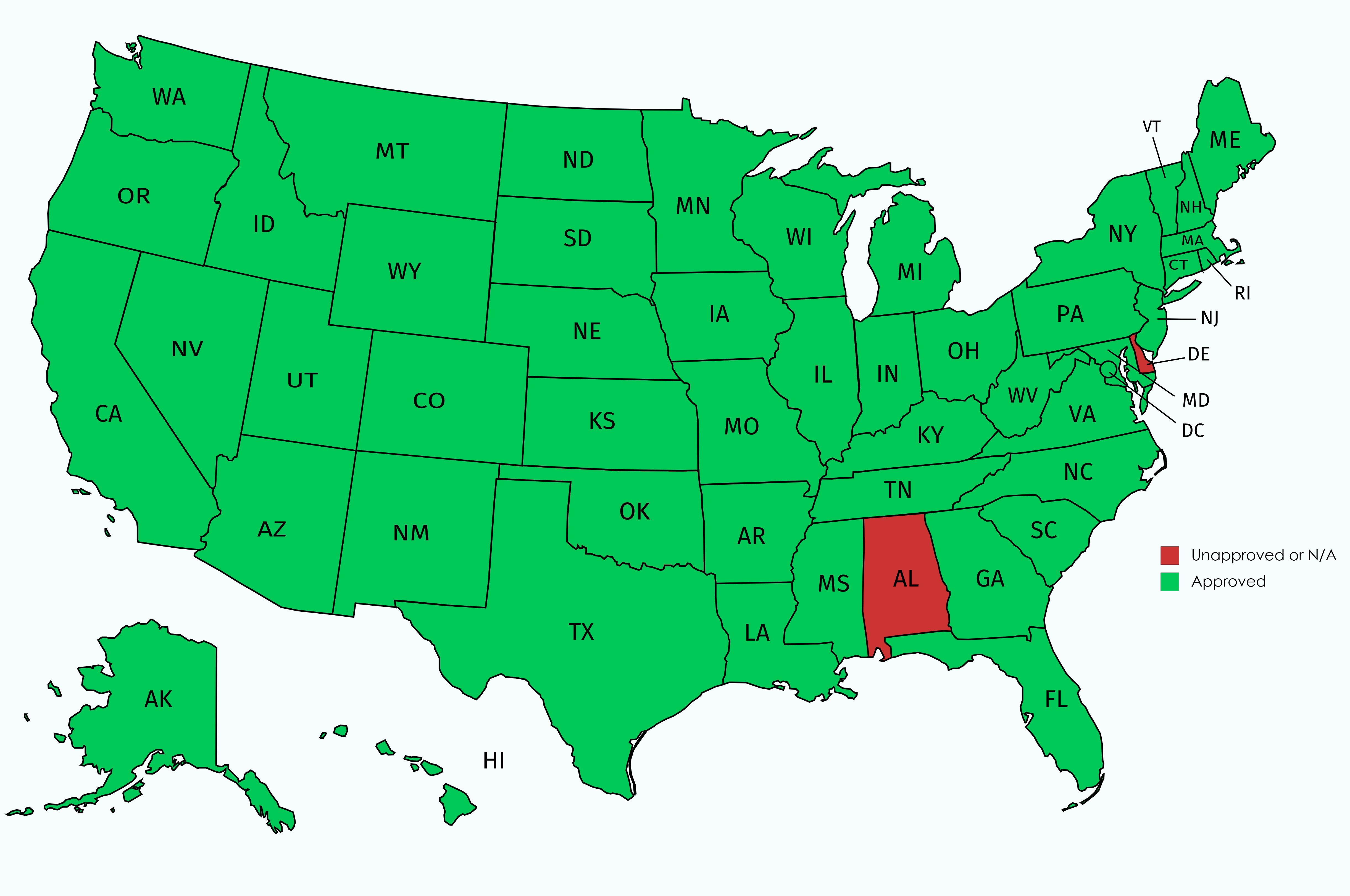 Map of states in the United States, colored by legality of collaborative practice agreements. Updated as of February 2016.